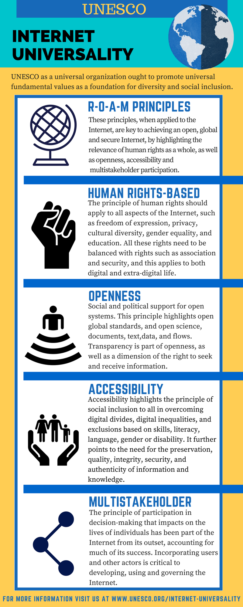 Human rights, Openness, Accessibility, Multistakeholderism